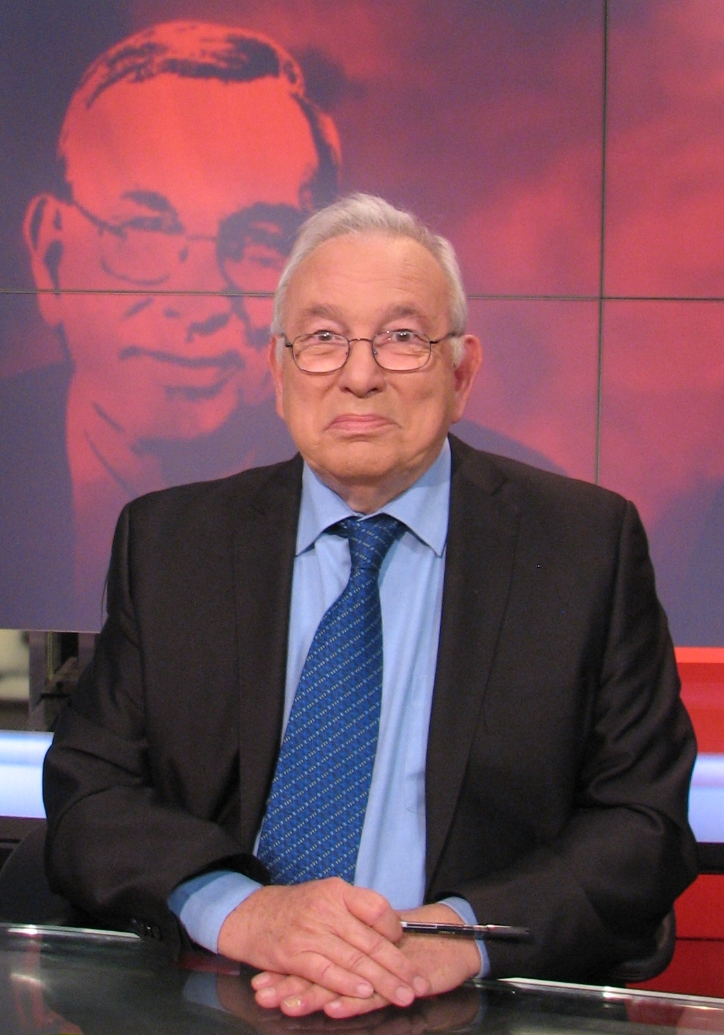 Yaron London, is an Israeli media personality, journalist, actor and songwriter